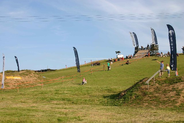 Fat Face World Freestyle Mountain Board Championships. The course for the Fat Face World Freestyle Championships.